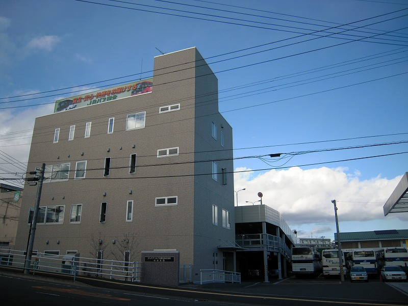 JR bus Tohoku Sendai branch